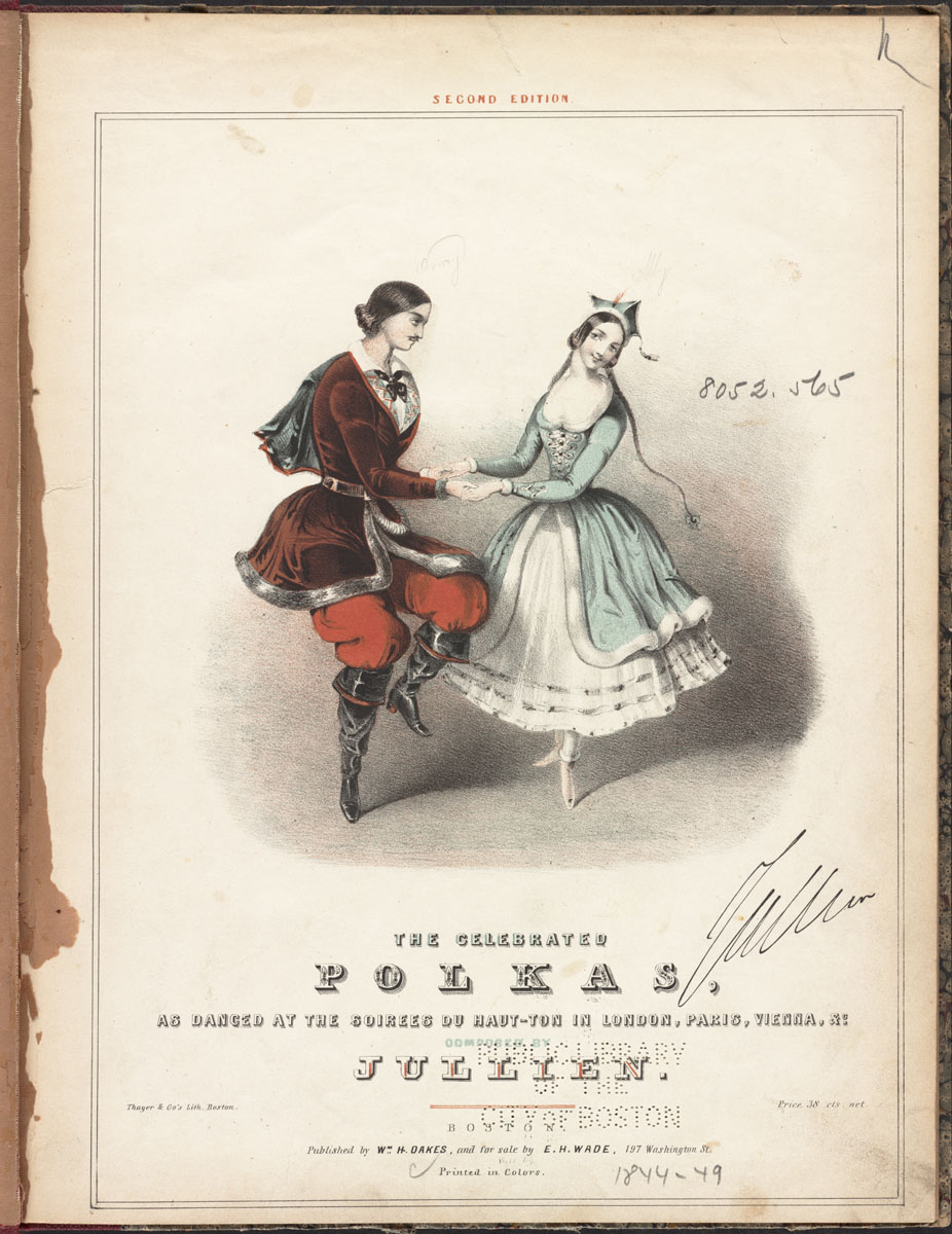 Accession No.: 07_07_000165 Call Number: 8052.565 Lithographer: Thayer, Benjamin W. & Co. Title of Lithograph: Dancing the Polka Composer: Julien Title of Composition: Polka Dances Place of Publication: Boston Publisher: Wm. H. Oakes BPL Department: Music Flickr data on 2011-08-06: Camera: Sinar AG Sinarback 54 FW, Sinar m Tags: dc:identifier=07_07_000165 License: CC BY 2.0 User: Boston Public Library BPL